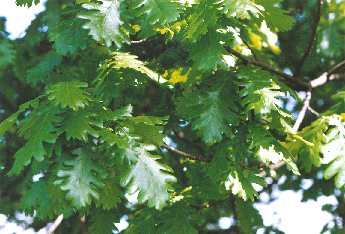 Close up leaves of the Hungarian Oak, Quercus frainetto, at Kew Botanic Garden, London, England.